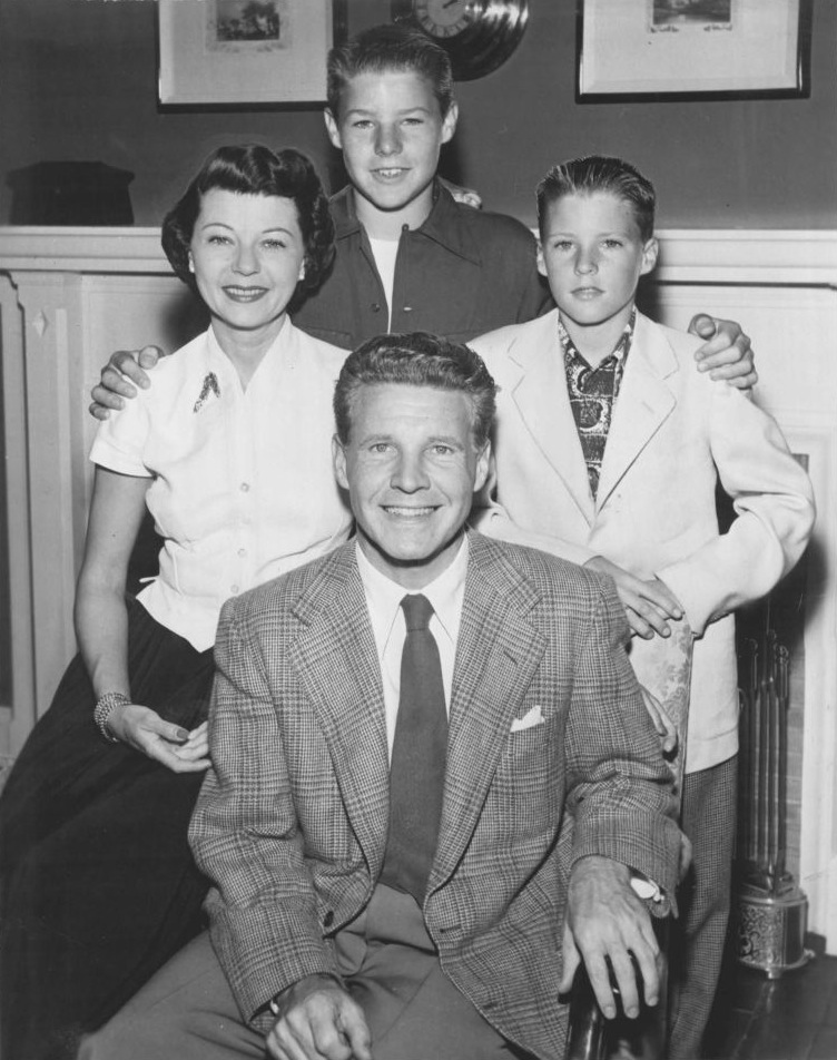 Publicity photo of American actors, (clockwise from front) Ozzie Nelson, Harriet Nelson, David Nelson and Ricky Nelson promoting their roles on the ABC television series The Adventures of Ozzie and Harriet, circa 1952.